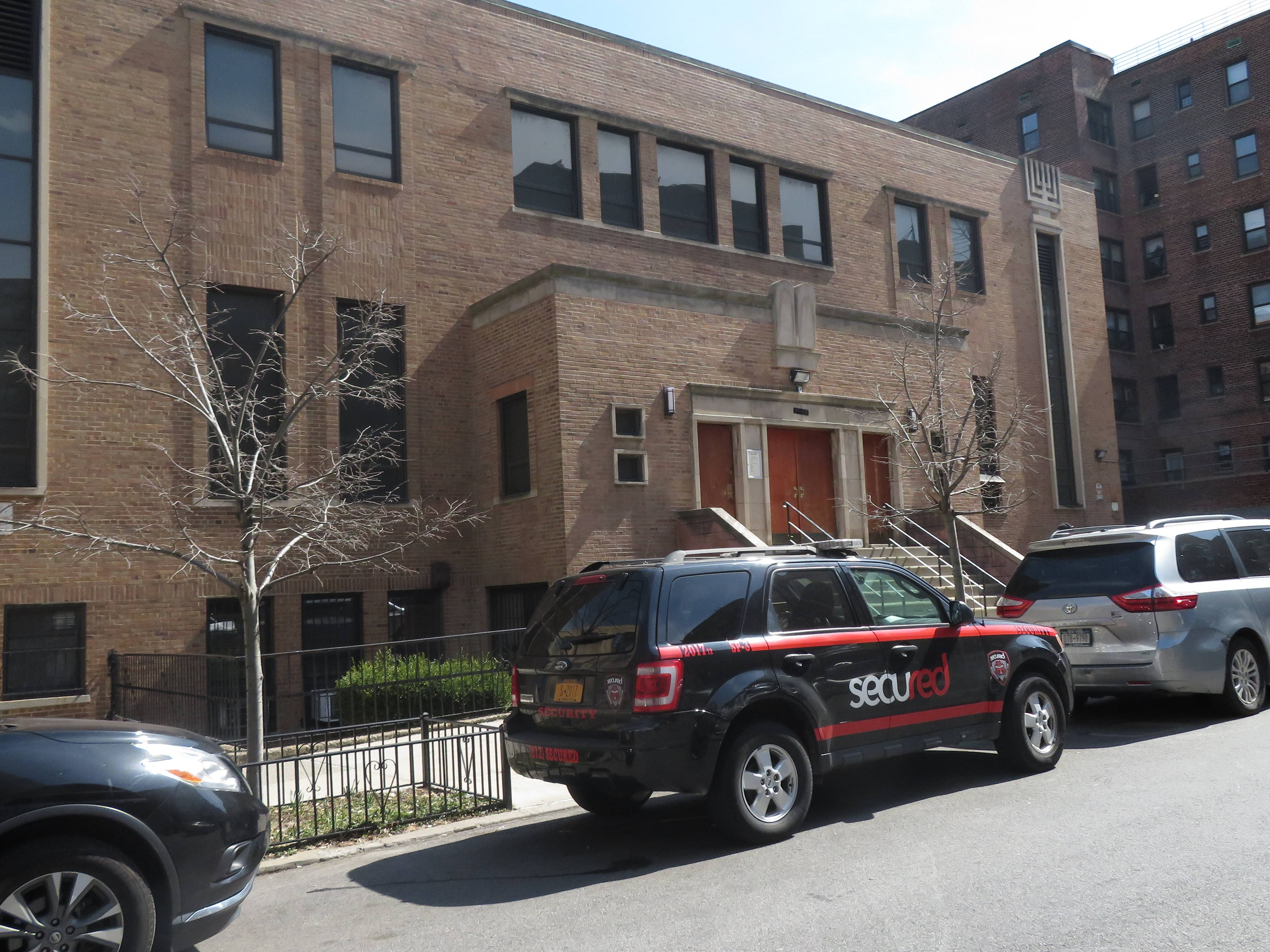 Synagogue facade